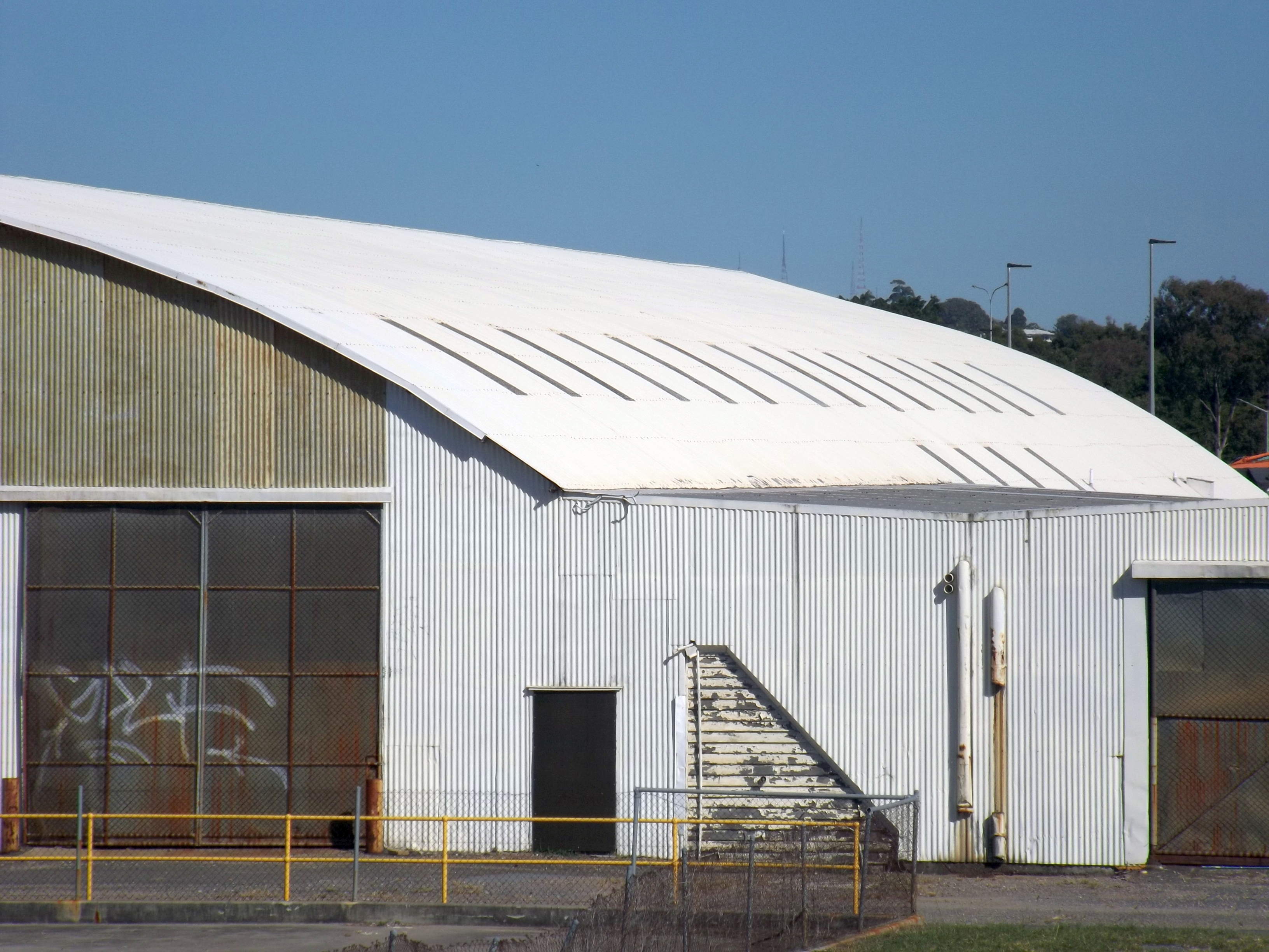 Photo of Second World War Hangar No. 7 showing roof at Eagle Farm, Brisbane, Queensland, Australia.